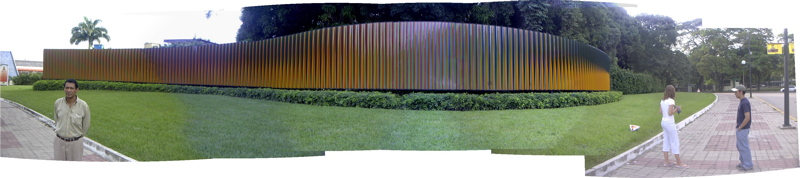 Contemporary steel wall outdoor sculpture by Carlos Cruz-Díez. On the north west side of a traffic roundabout in Valencia, Carabobo, Venezuela. Photo by Valecito: taken in 2005.